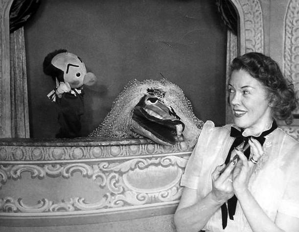 Publicity photo of Fran Allison with Kukla and Ollie from Kukla, Fran, and Ollie television program.